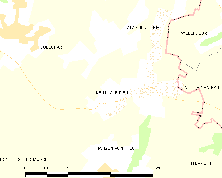 Map of French municipality Neuilly-le-Dien